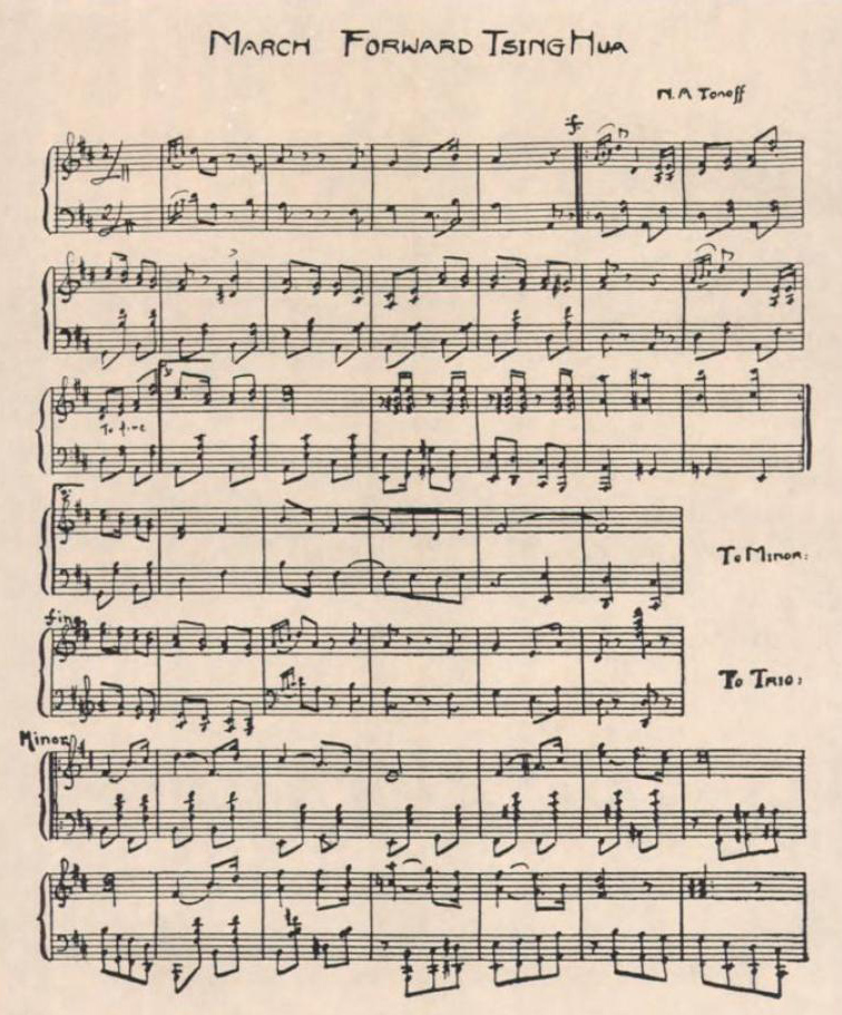 The Song March Forward Tsing Hua, 1910s